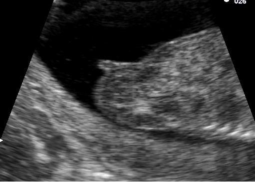 Genital tubercle at 14 weeks It's a girl !.